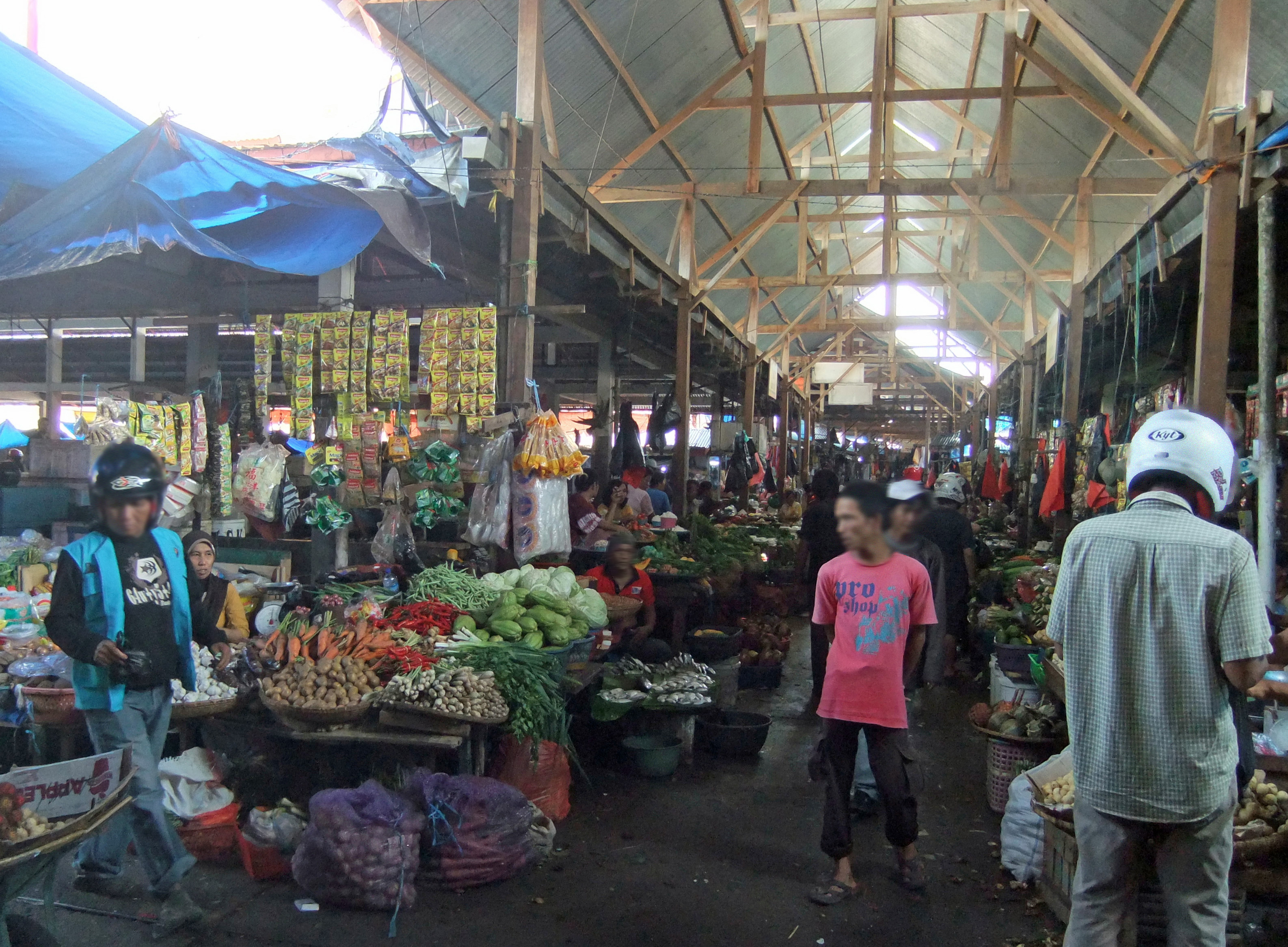 Local market at Palopo Regency South Sulawesi, Indonesia